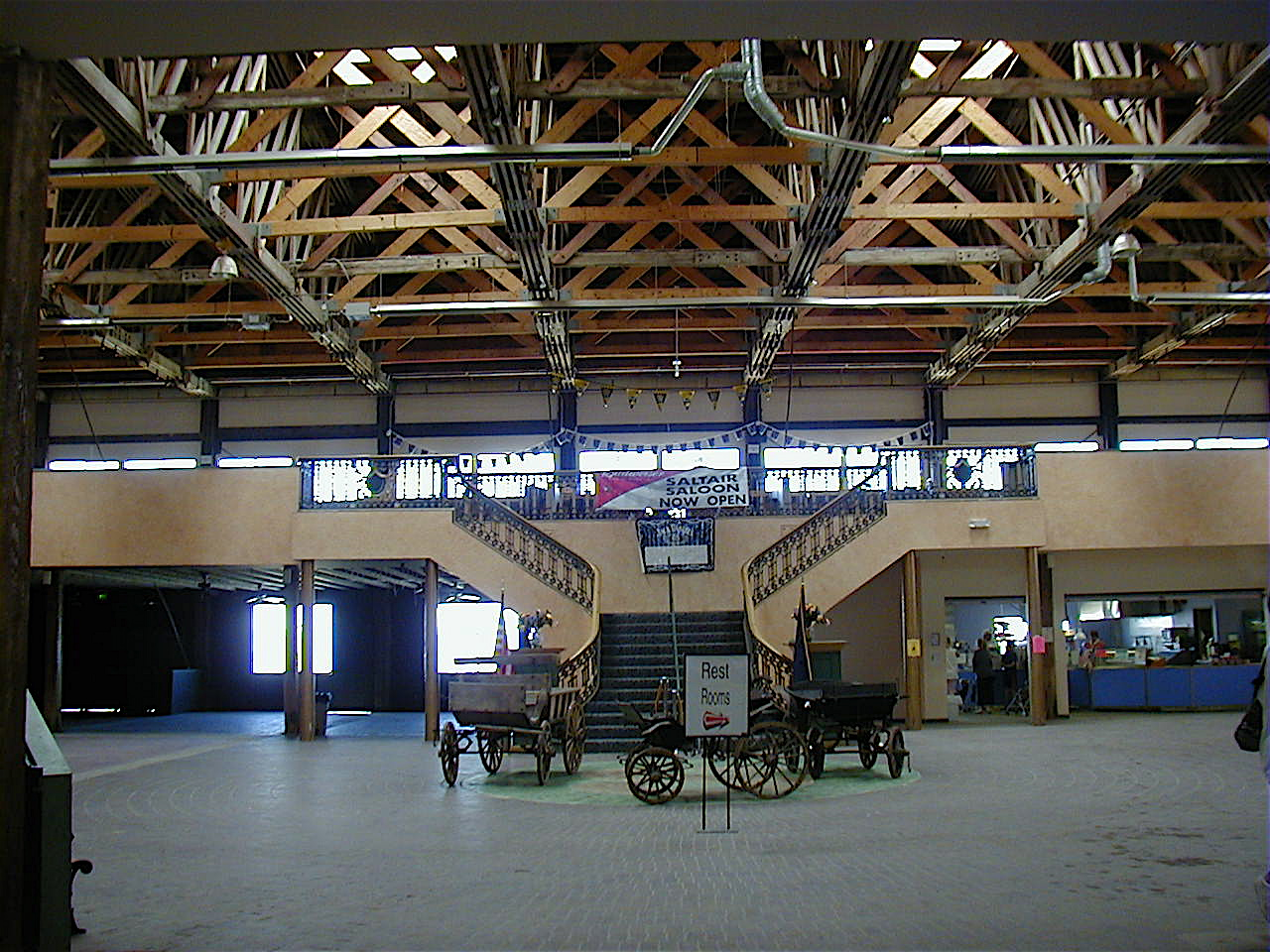 Saltair (Saltair Pavilion), interior view Photograph made by Michael C. Berch User:MCB on 2002-08-03 and released under free license CC-BY-SA-2.5.